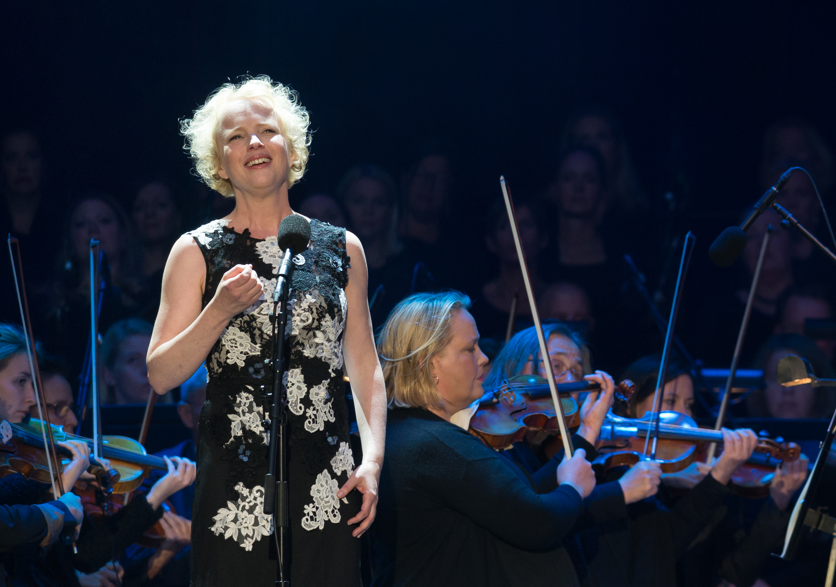 Kerstin Avemo at Gustav Adolfs torg during Stockholm's cultural festival 2019. With the Royal Hov Chapel from the Stockholm Opera